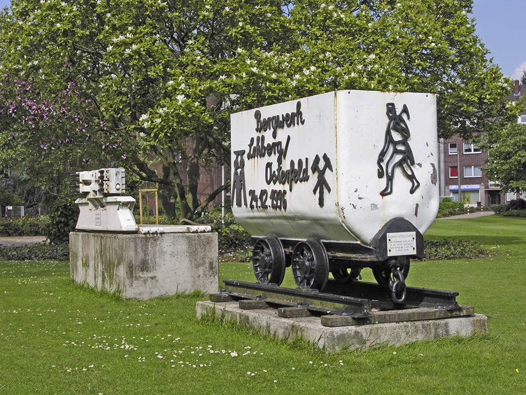 Lorry of the mine "Lohberg/Osterfeld", Dinslaken